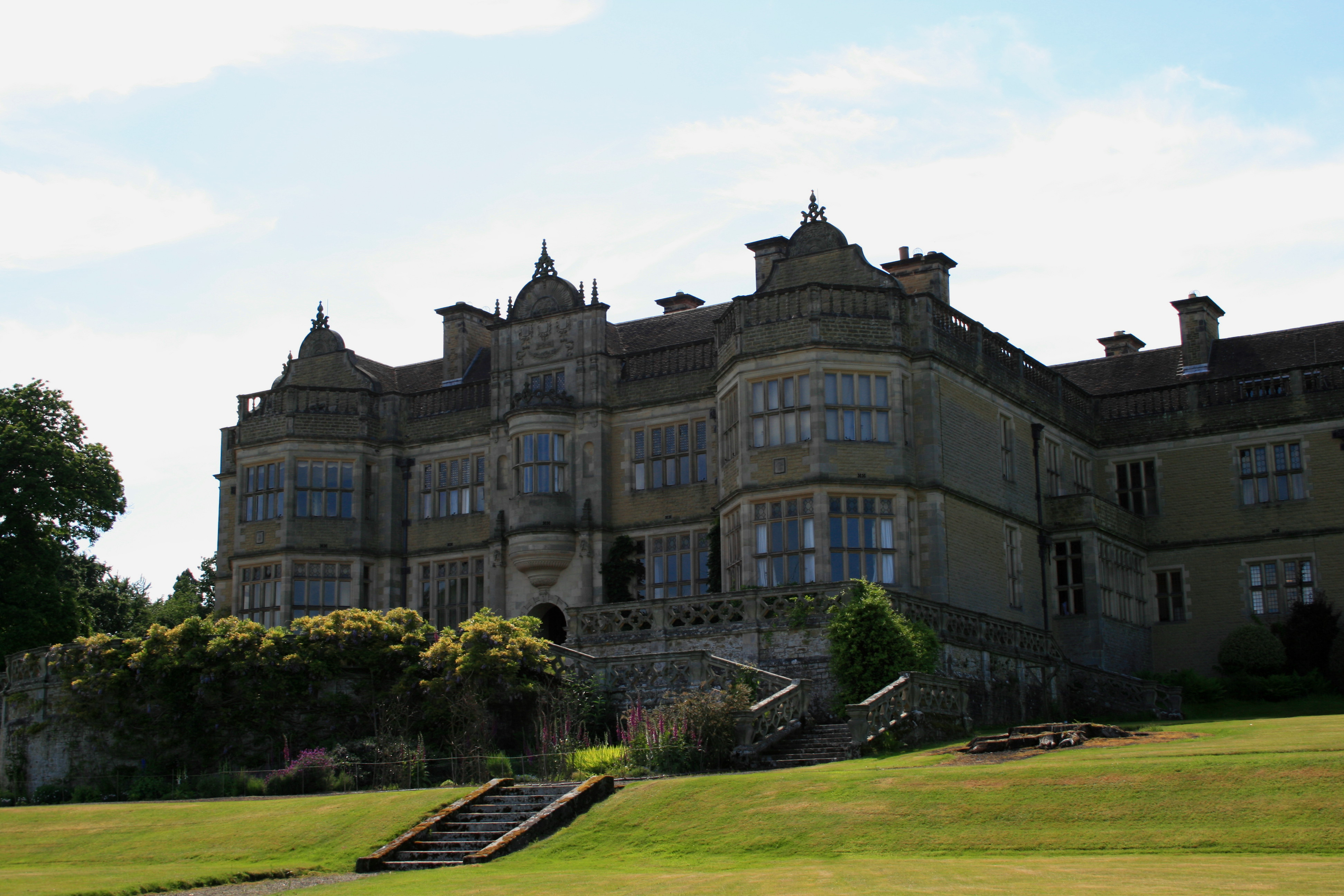 View of English country house Stokesay Court from the lawn.